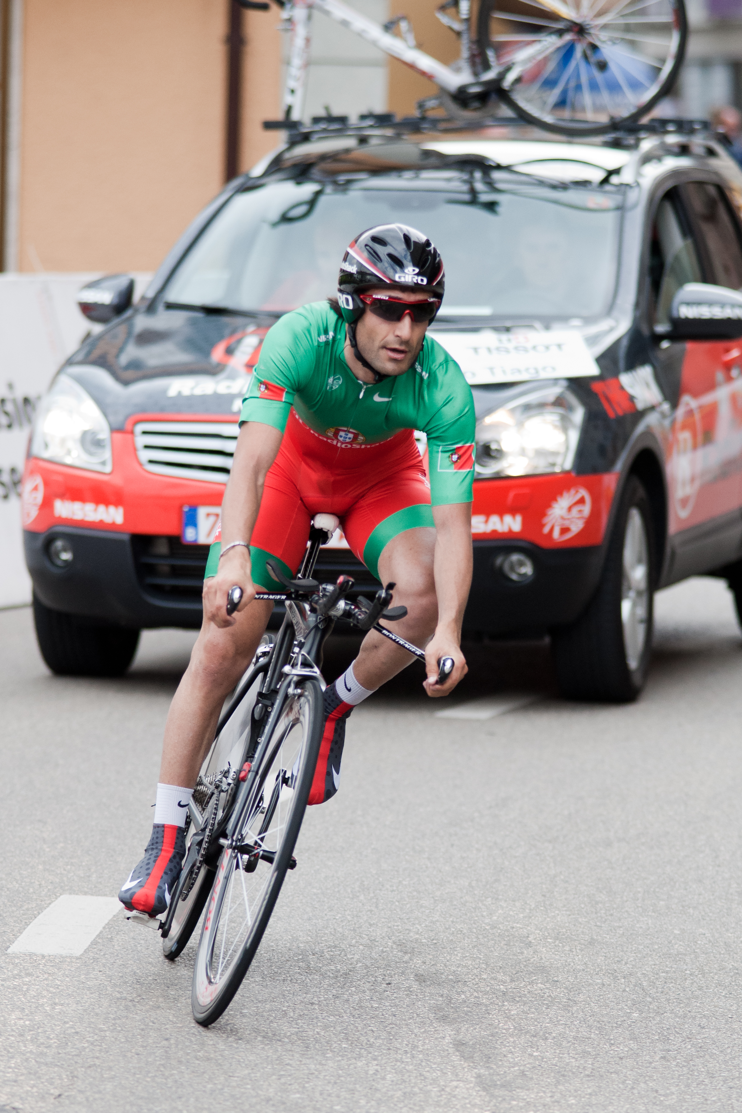 Tiago Machado during the 3rs stage of the Tour de Romandie 2010.